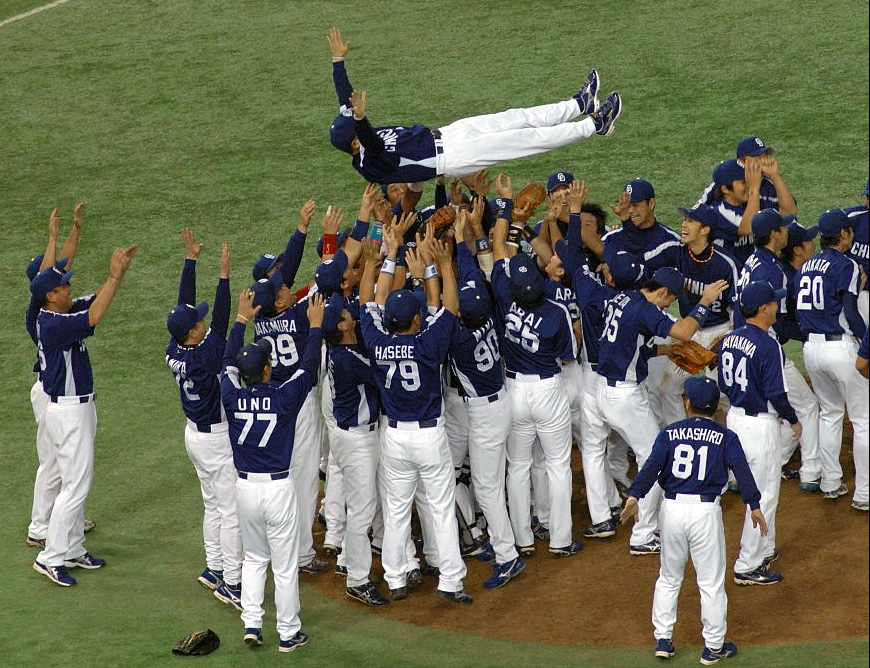 Konami Cup 2007 Asia Series Champions Chunichi Dragons